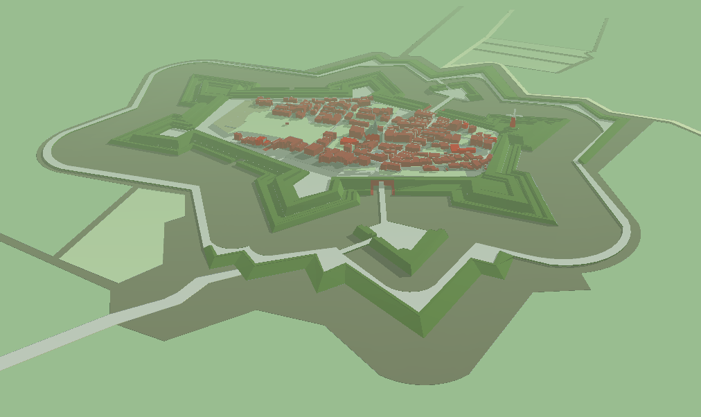 Reconstruction of Bredevoort around 1760, just before demolition of fortifications by the civilisans. Reconstruction was made with Google sketchup, fortunately there is a map that can be seen on from 1811-1832 with much details wich in every home and building are accurately stated. The reconstruction was made with great care and precision and will leads to a representative picture of the situation around 1760.The reconstruction I must make from a "distance" to make, but with great care and precision and will leads to a representative picture of the situation around 1760.